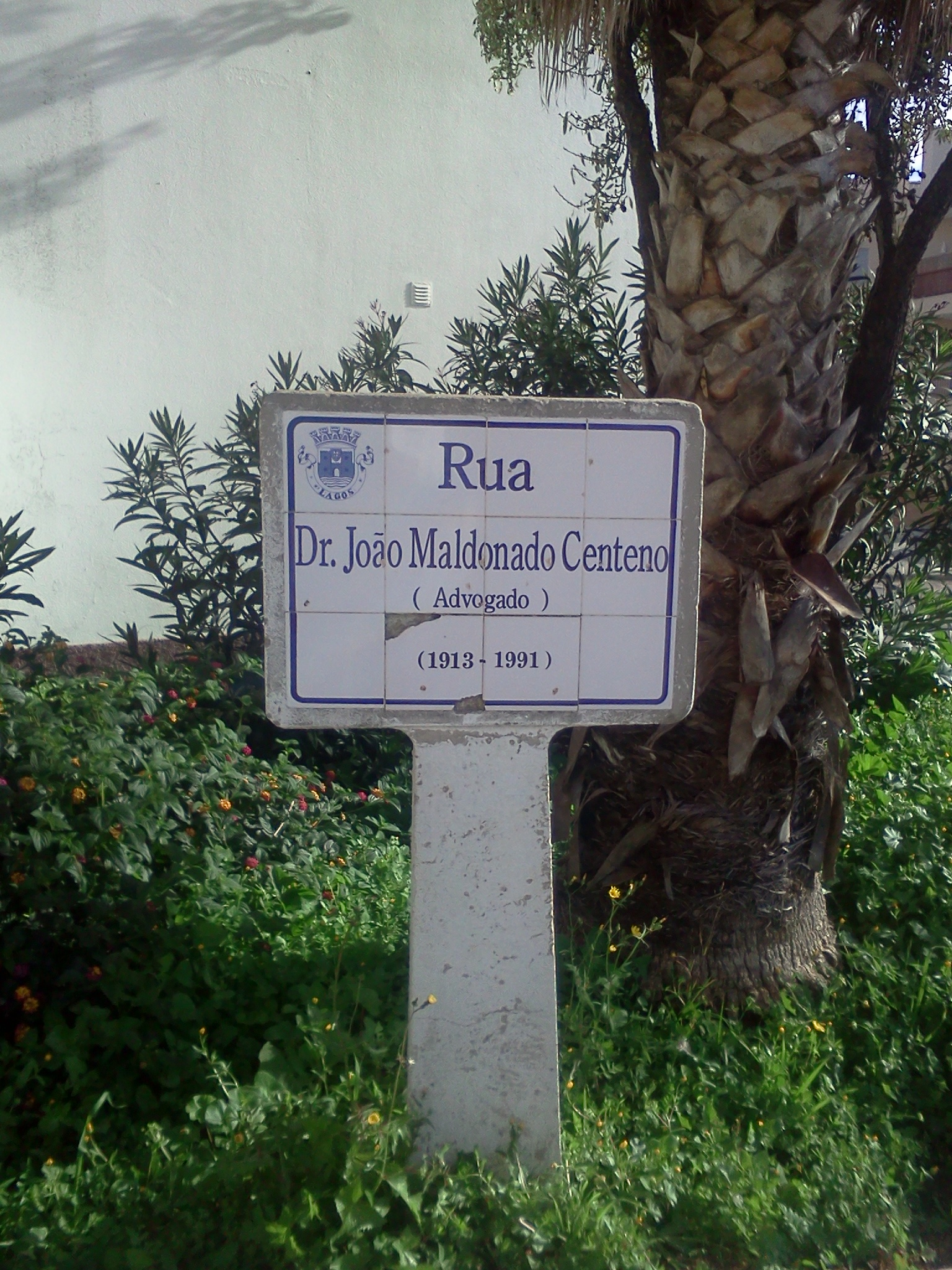 Street sign of Rua Dr. João Maldonado Centeno, in the city of Lagos, in southern Portugal.